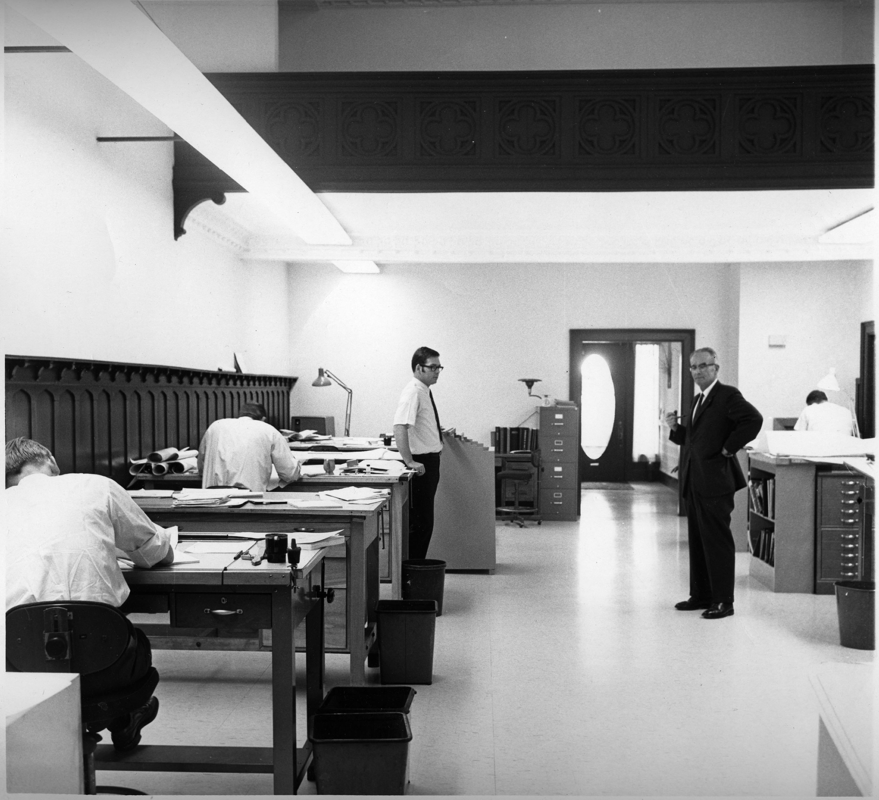 Livingstone Consulting Engineers office in the Butterworth Building, Seattle, Washington, USA. 1969. Item 77149, Clerk File 263133 (Record Series 1802-01), Seattle Municipal Archives.